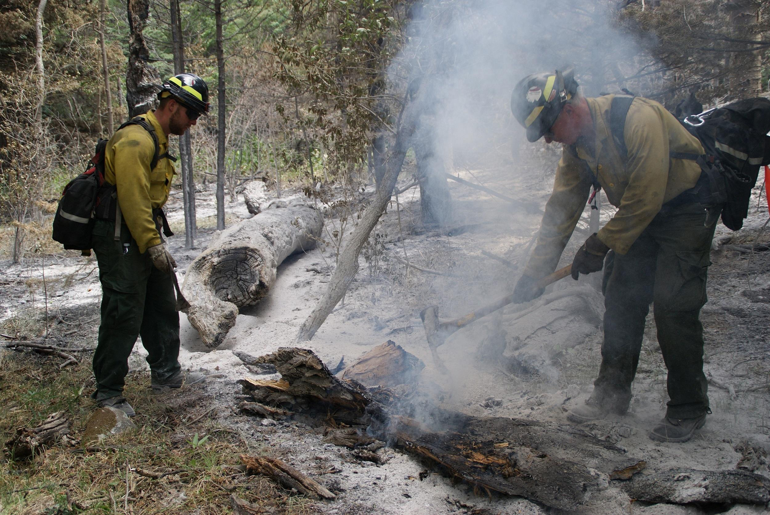 Firefighters extinguish burning embers that might restart a new blaze at the East Peak Fire near Walsenburg, CO. The East Peak Fire located approximately 10 miles southwest of Walsenburg, CO began on Jun. 19, 2013 by lightning has consumed approximately 12, 996 acres. As of Jun. 28, 2013 the fire is 85% contained with 13, 521 acres burned. Due to the steep terrain, very heavy timber and continued dry conditions, there is still a potential for spot fires and thus, the fire will not reach 100 percent containment until sufficient interior mop up is complete. U.S. Forest Service photo.